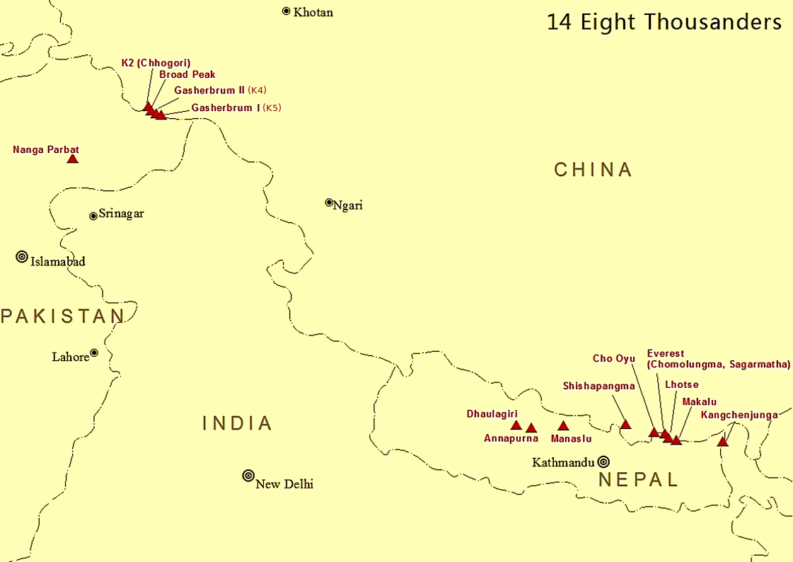 Locations of the 14 highest peaks (Eight Thousanders) in the world